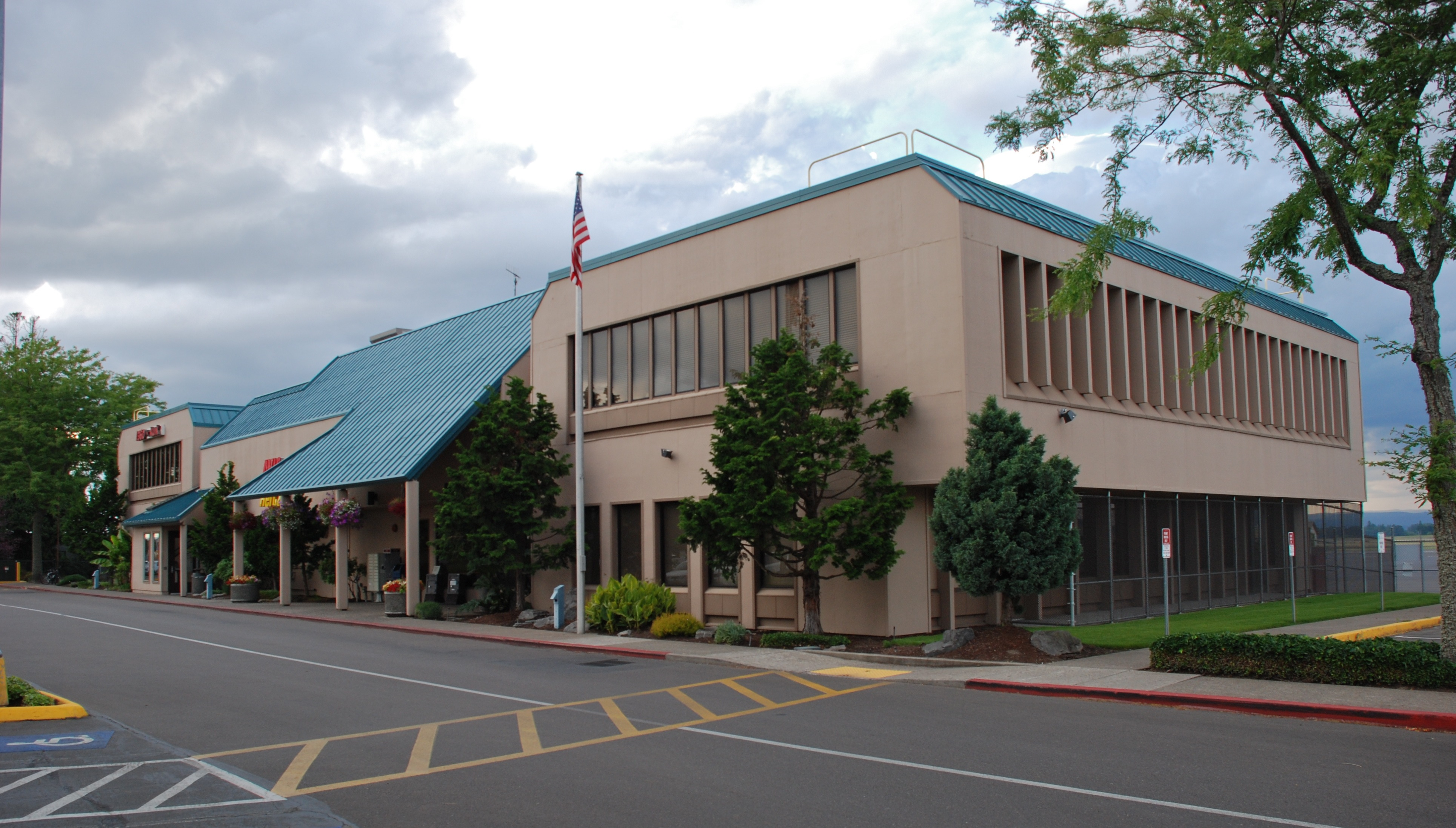 The main terminal building at the Hillsboro Airport (in Hillsboro, Oregon), viewed from the southeast.